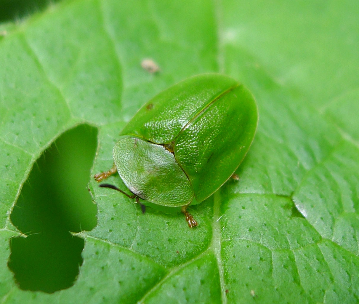 WWT Knapp Reserve, Worcs. U.K. SO 748522